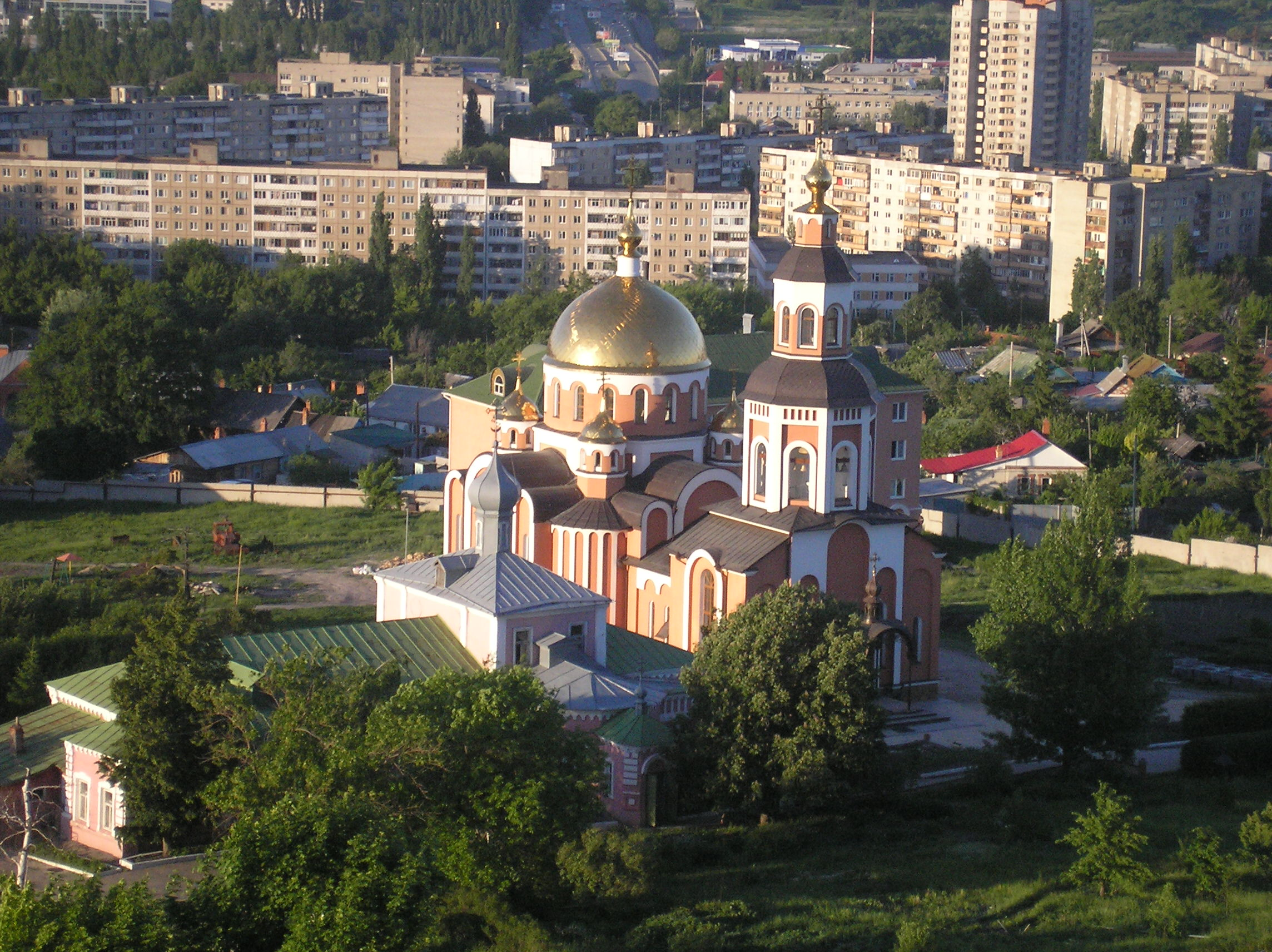 Saint Alexius church in Saint Alexius monastery, Saratov, Russia